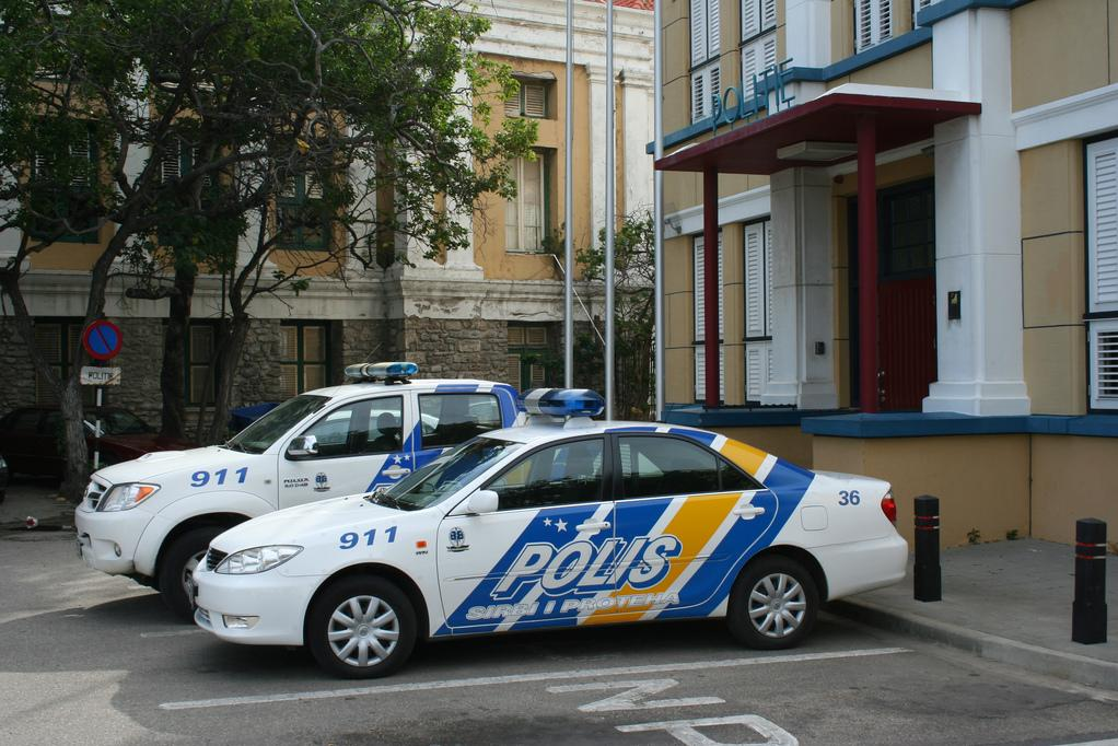 Curacao Police cars